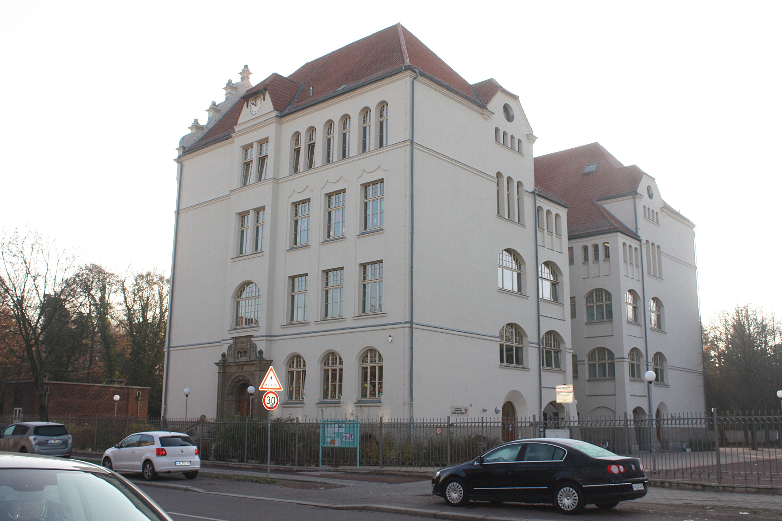 Halle (Saale),the Hutten school